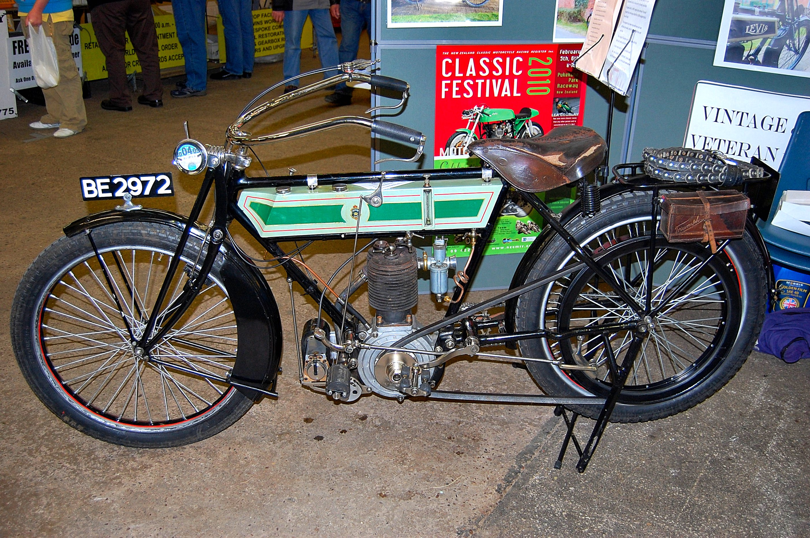 Was designed in 1914. With 3-speed gearbox and belt final drive it soon became the favorite motorcycle of army despatch-riders in WW1 (1914-1918). The outbreak of World War I proved a boost for the company as production was switched to support the Allied war effort. More than 30,000 motorcycles - among them the Model H Roadster also known as the "Trusty Triumph," often cited as the first modern motorcycle - were supplied to the Allies. Bettmann and Schulte fell out after the war, with Schulte wishing to replace bicycle production with cars. Schulte left the company, but in the 1920s Triumph purchased the former Hillman car factory in Coventry and produced a saloon car in 1923 under the name of the Triumph Motor Company. Harry Ricardo produced an engine for their latest motorbike.